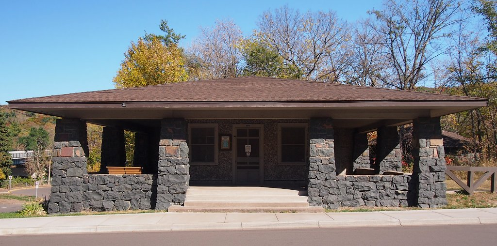 Rustic Style restroom building, Interstate State Park, Minnesota, USA